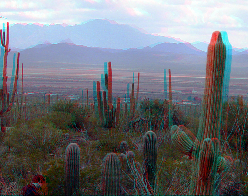 3D image from USGS use glasses for 3D; anaglyph of Saguaro National Park at dusk; Kit Peak in the distance, behind Avra Valley. Numerous cacti present in the foreground.